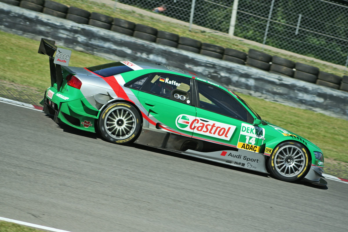 Pierre Kaffer driving for Audi in the 2006 Deutsche Tourenwagen Masters season.